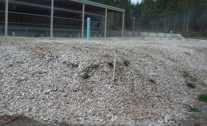 Municipal biosolids composting facility, air exhaust biofilter